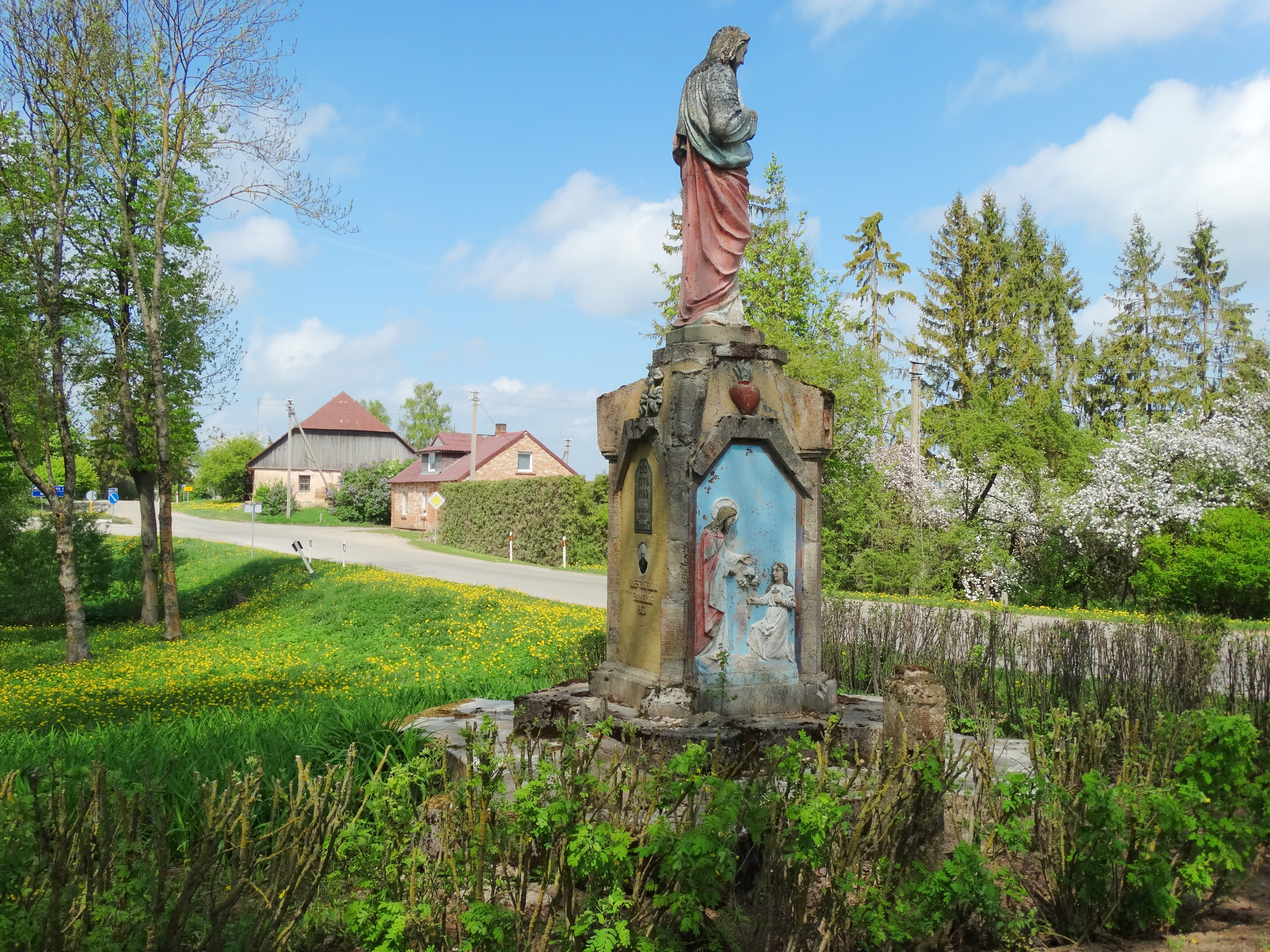 Lauksodis, Lithuania